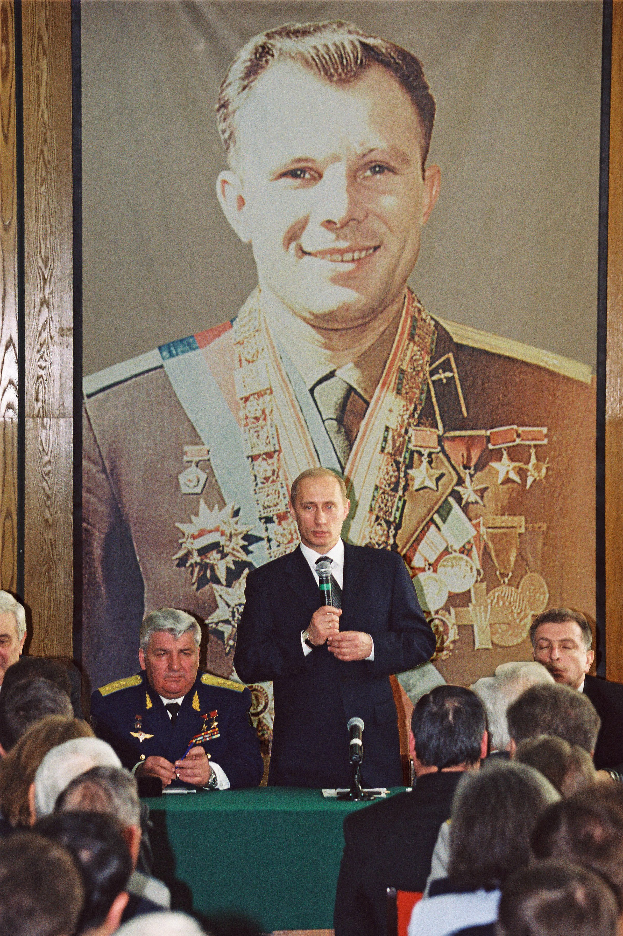 STAR CITY, THE MOSCOW REGION. President Putin addressing managers of the Cosmonaut Training Centre, cosmonauts and space-industry veterans.